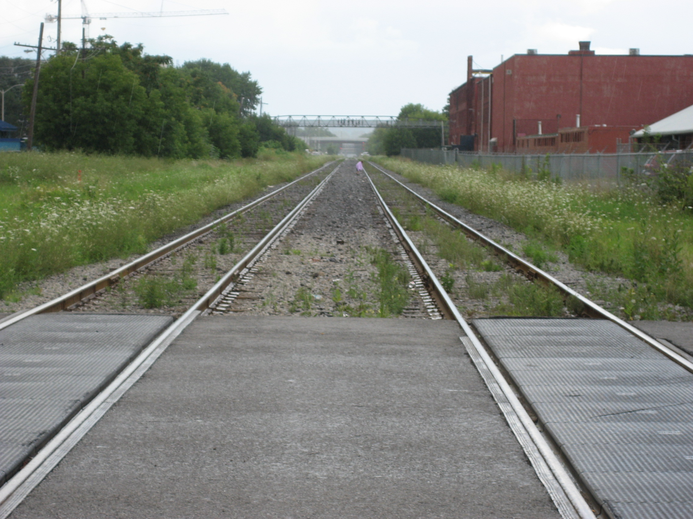 CN Tracks, Wentworth Street North, Hamilton, Canada.